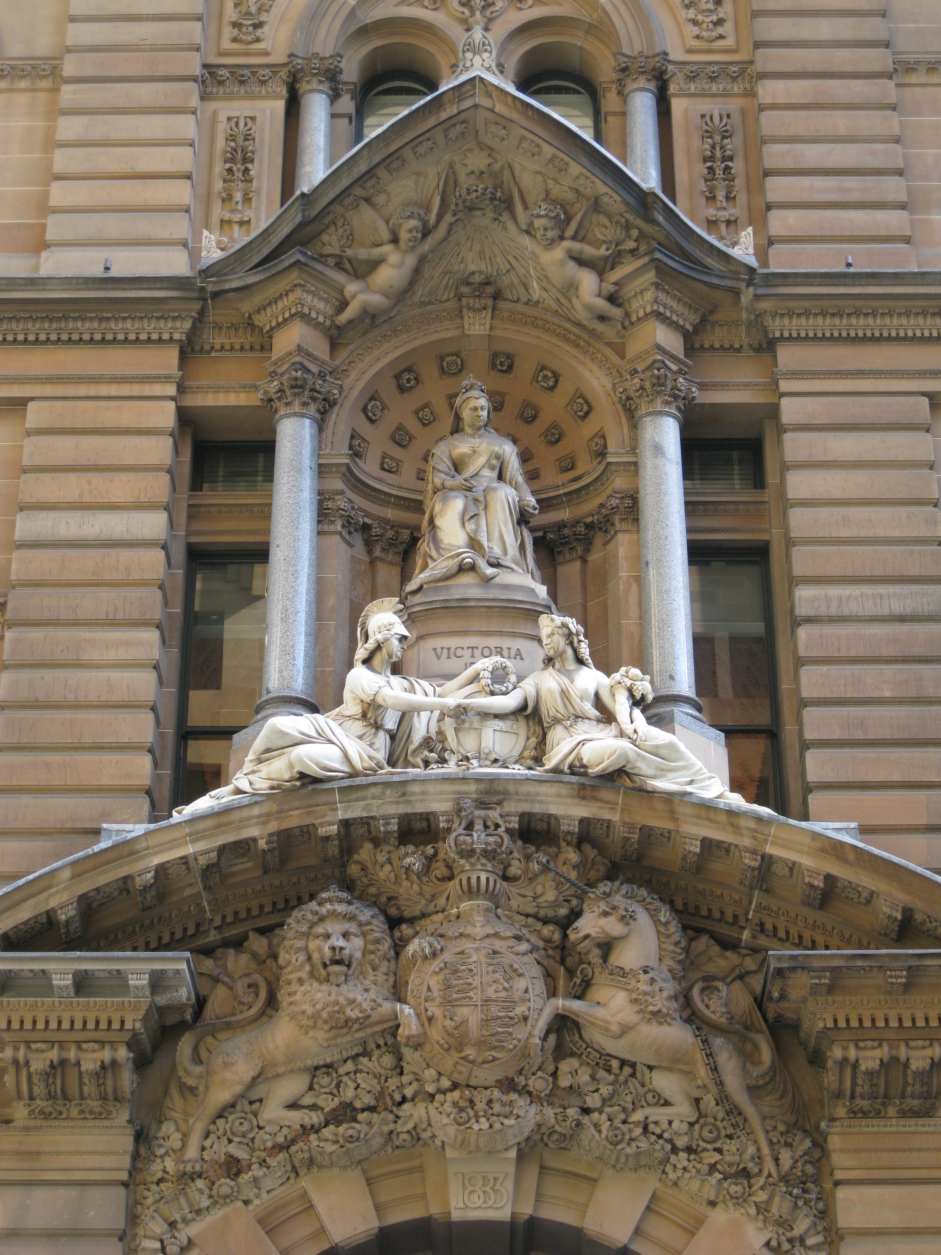 Sydney General Post Office statues